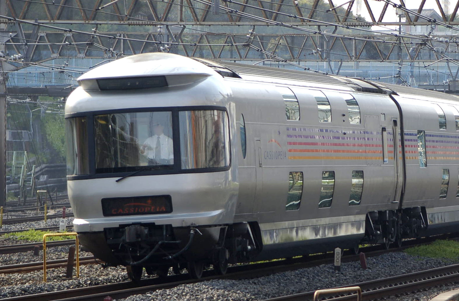 JR East E26 series passenger cars, Limited express "Cassiopeir".